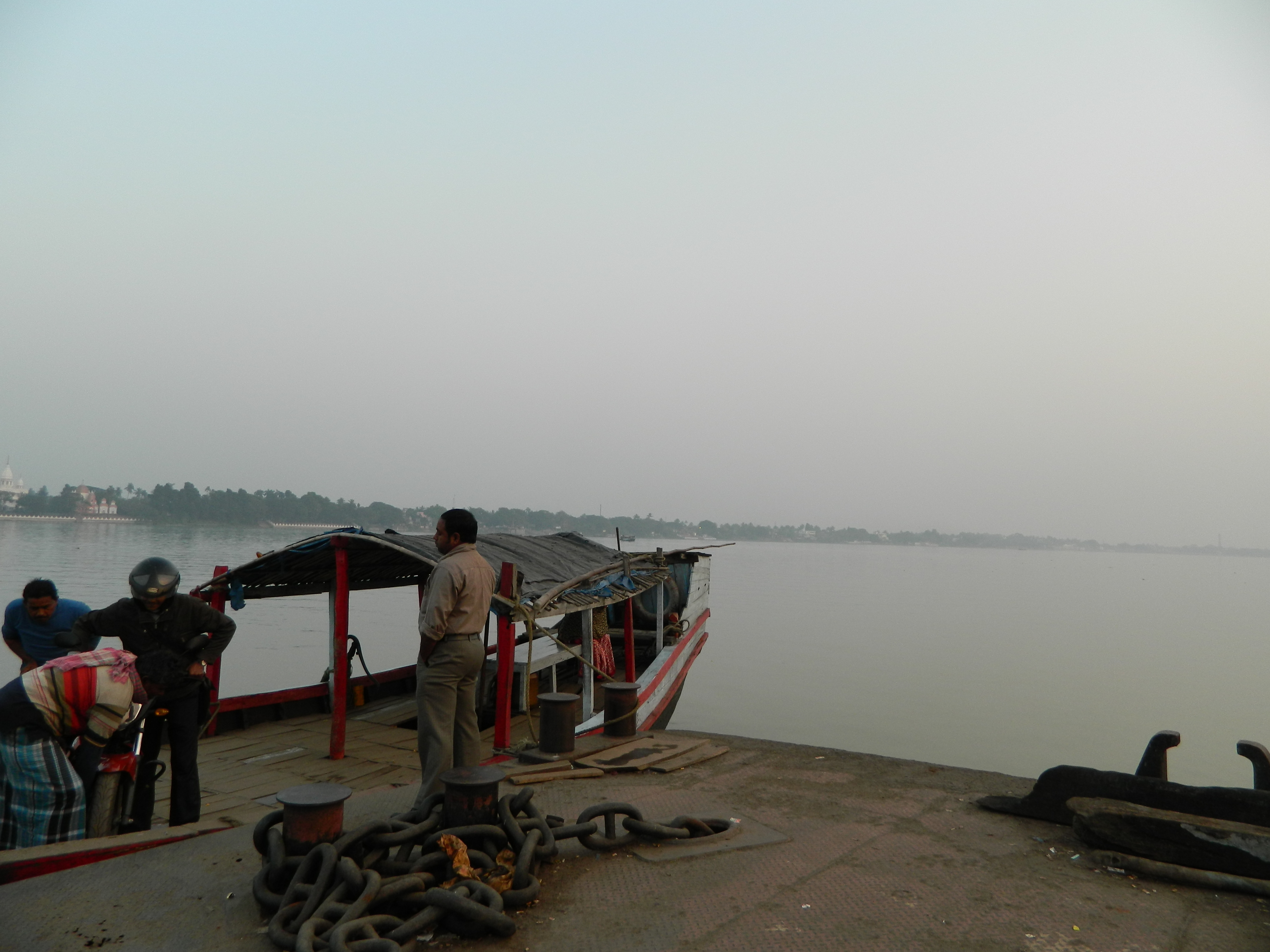 Konnagar Ferry Ghat which connects Konnagar to Sodepur